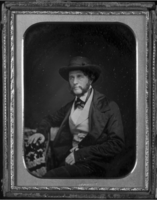 Daguerreotype of Charles Minturn, San Francisco steamboat pioneer, taken in 1851 by Frederick Combs. Now in the collection of the San Francisco Maritime Museum, a unit of the National Park Service